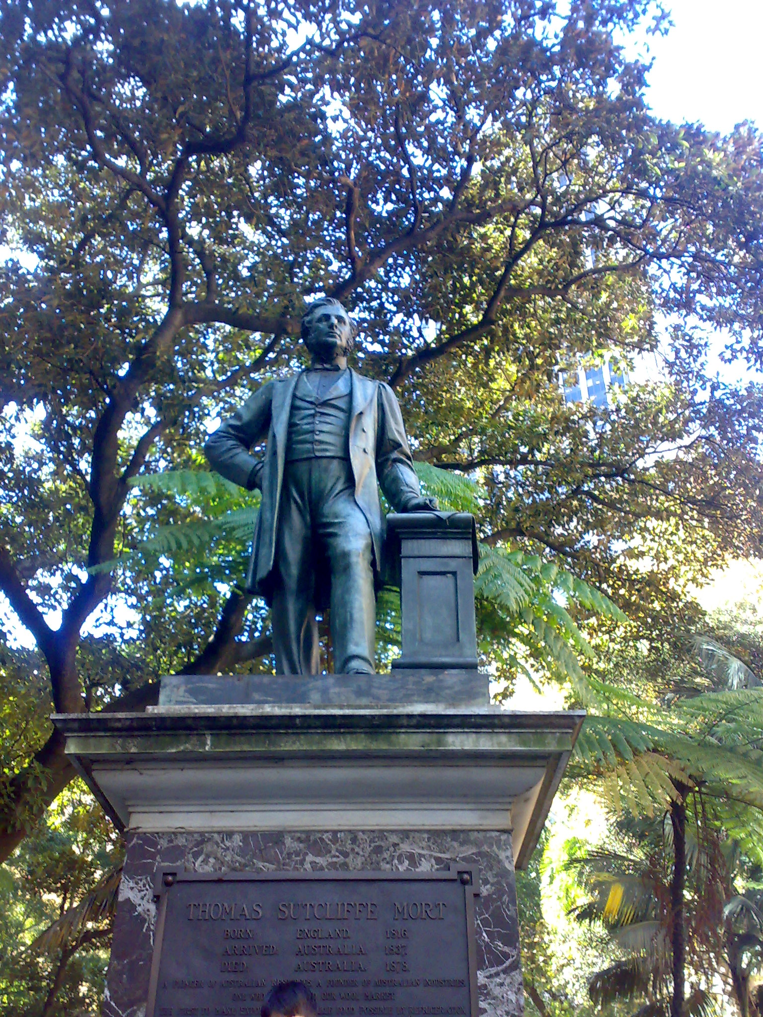 The statue of Thomas Mort that was placed in Macquarie Place in 1883.